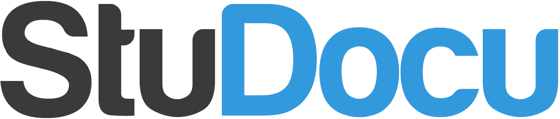 Logo of StuDocu